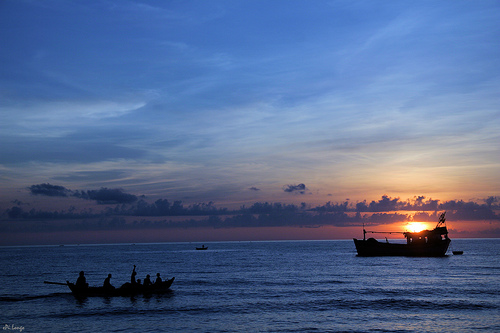 bat ca